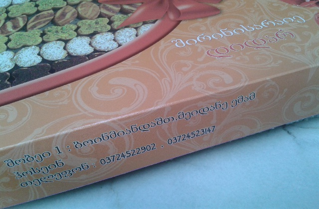 Persian languge written by georgian languages alphabet (in Fereydan)